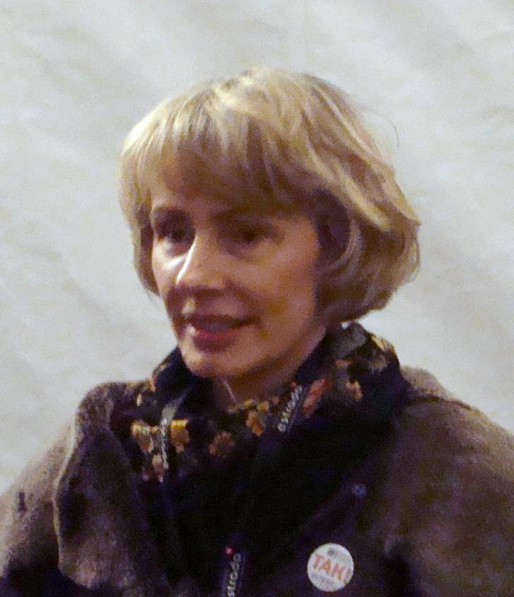 Agnieszka Romaszewska-Guzy, director of Belsat TV